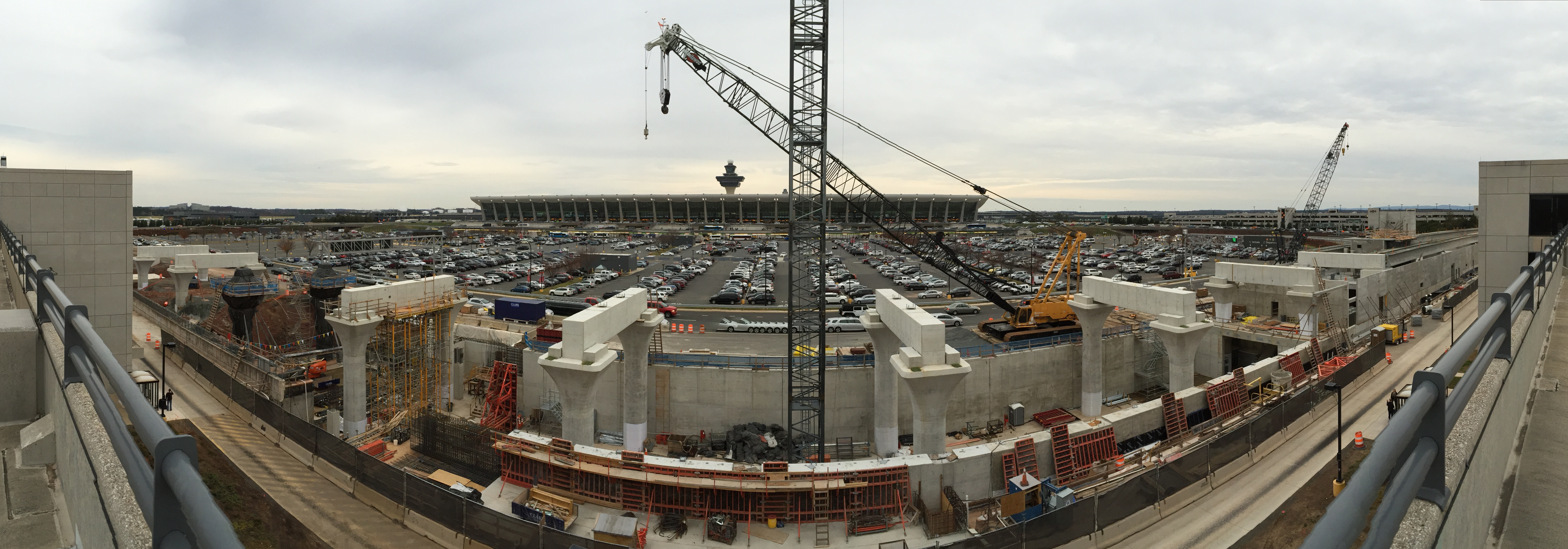 Construction of the Dulles International Airport Washington Metro station in 2016